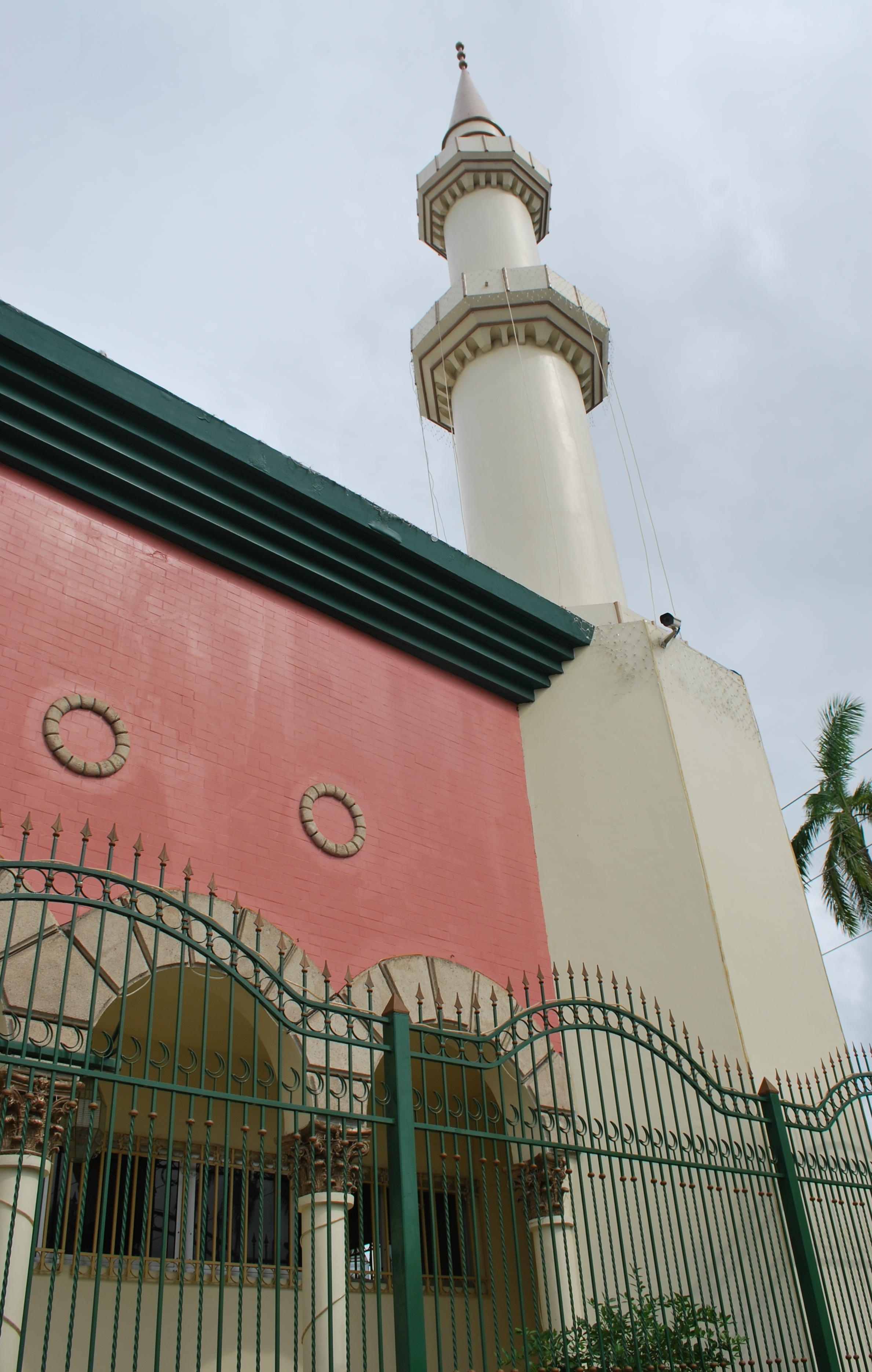 Mosque in Colón, Panama.